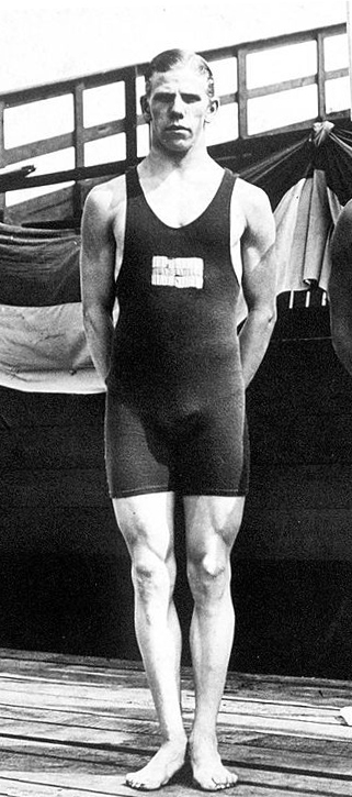 Olympic Games, Stockholm, Sweden, Plain Diving, Erik Adlerz